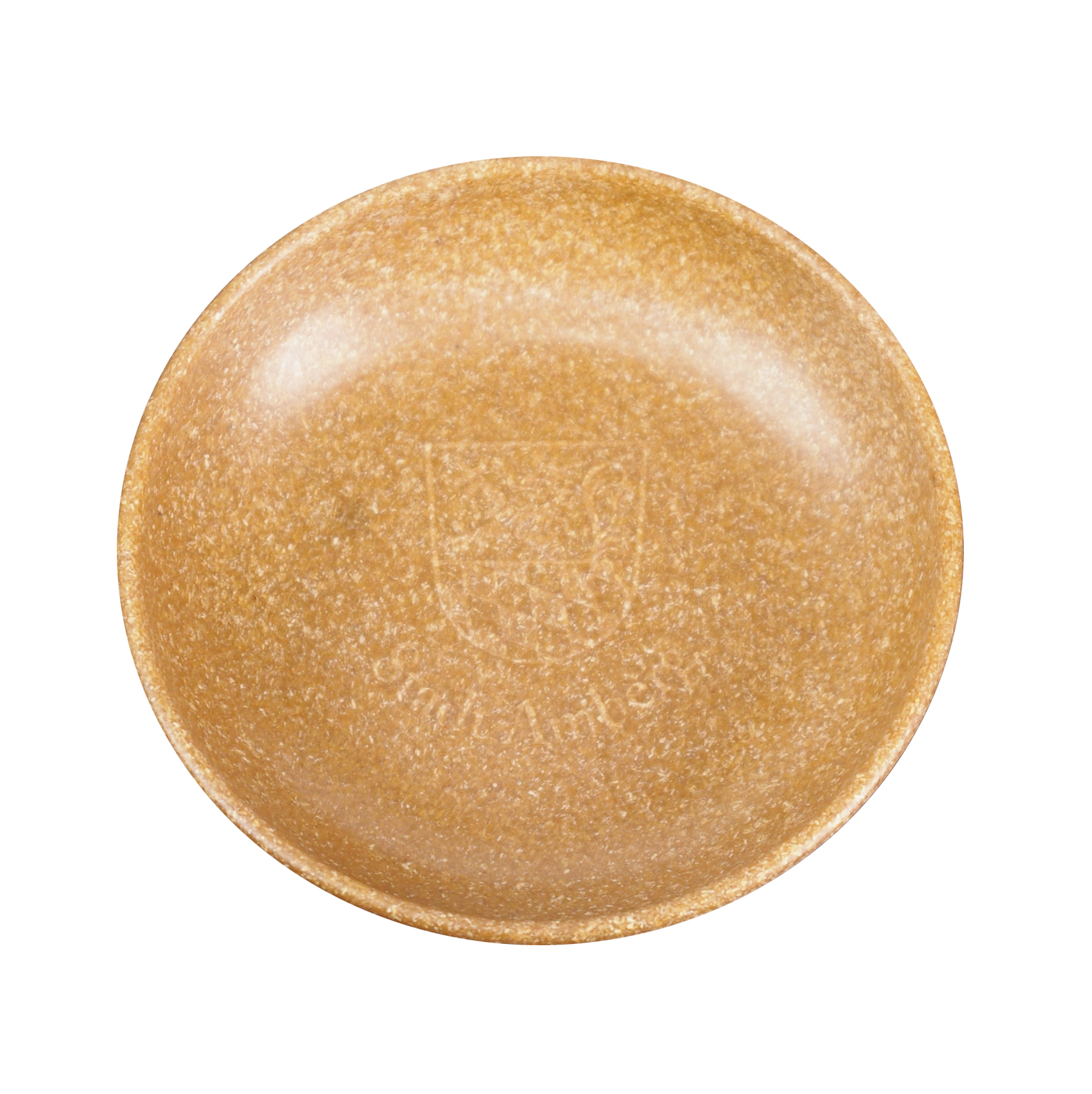 Little Dish made from reinforced PLA